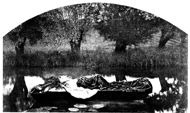 The Lady of Shalott. Albumen print from two negatives, 12 x 10 in. (30.4 x 50.8 cm.). Unsigned. The Harry Ransom Humanities Research Center, University of Texas (ace. no.964:057:068) Helmut Gernscheim Collection.